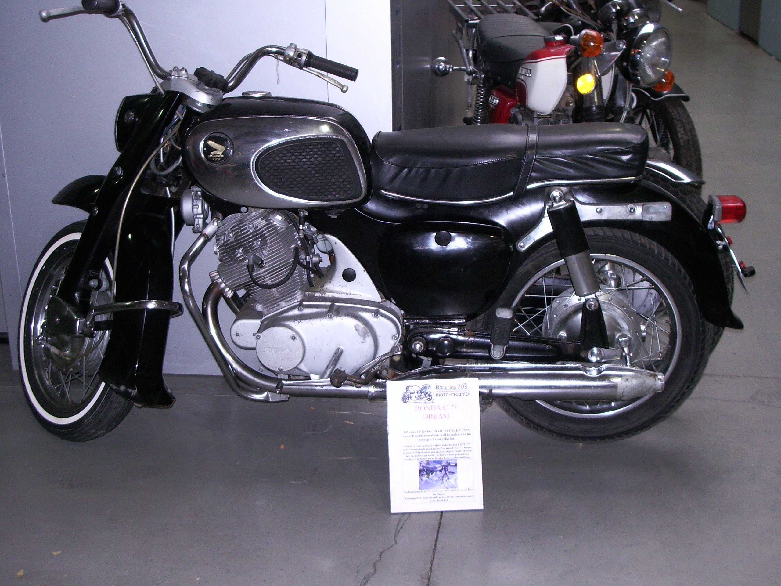 Honda C77 Dream 300